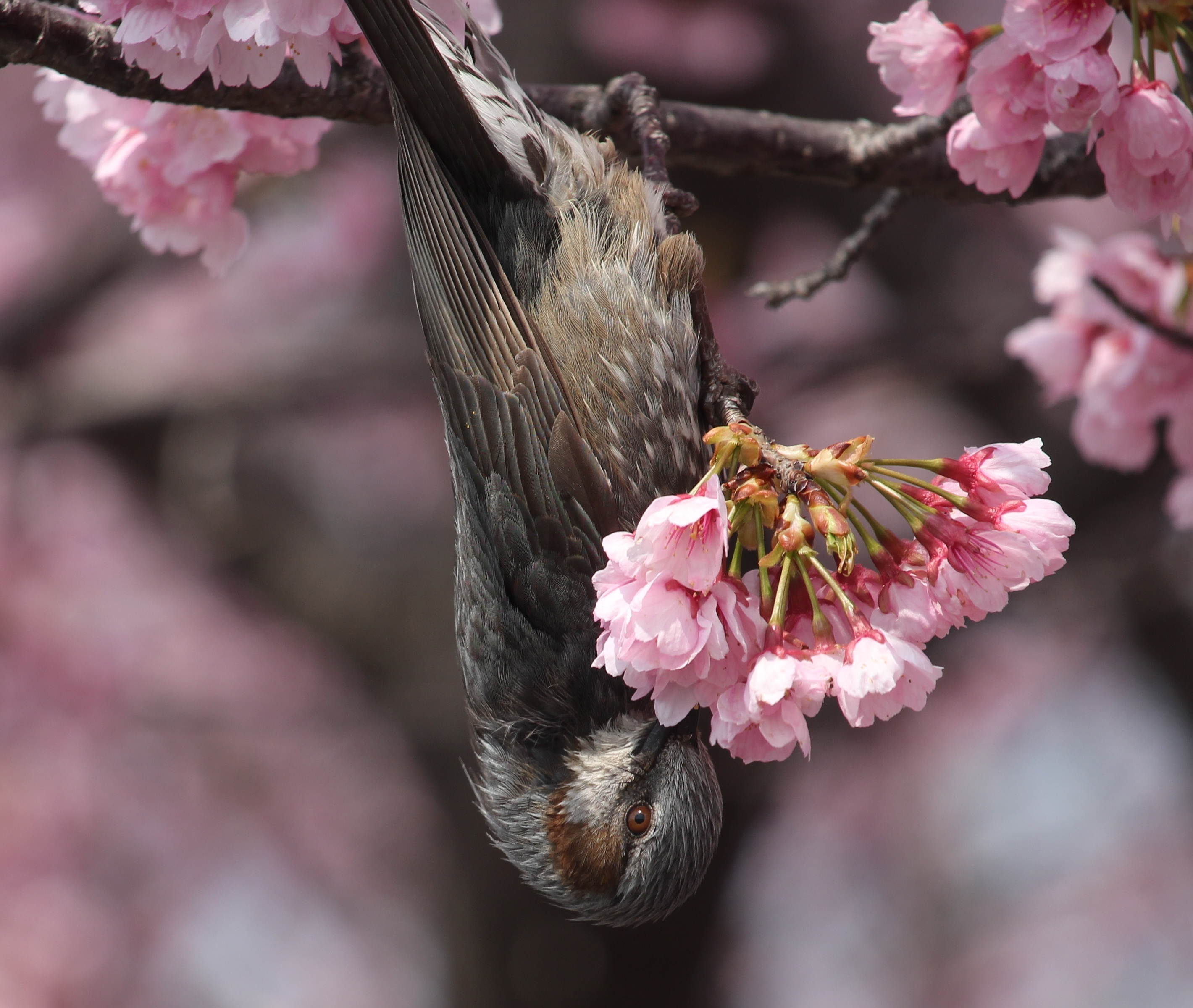 Hypsipetes amaurotis (Brown-eared Bulbul) feeding nectar of Sakura (Ōkan-zakura), in Aichi prefecture, Japan.